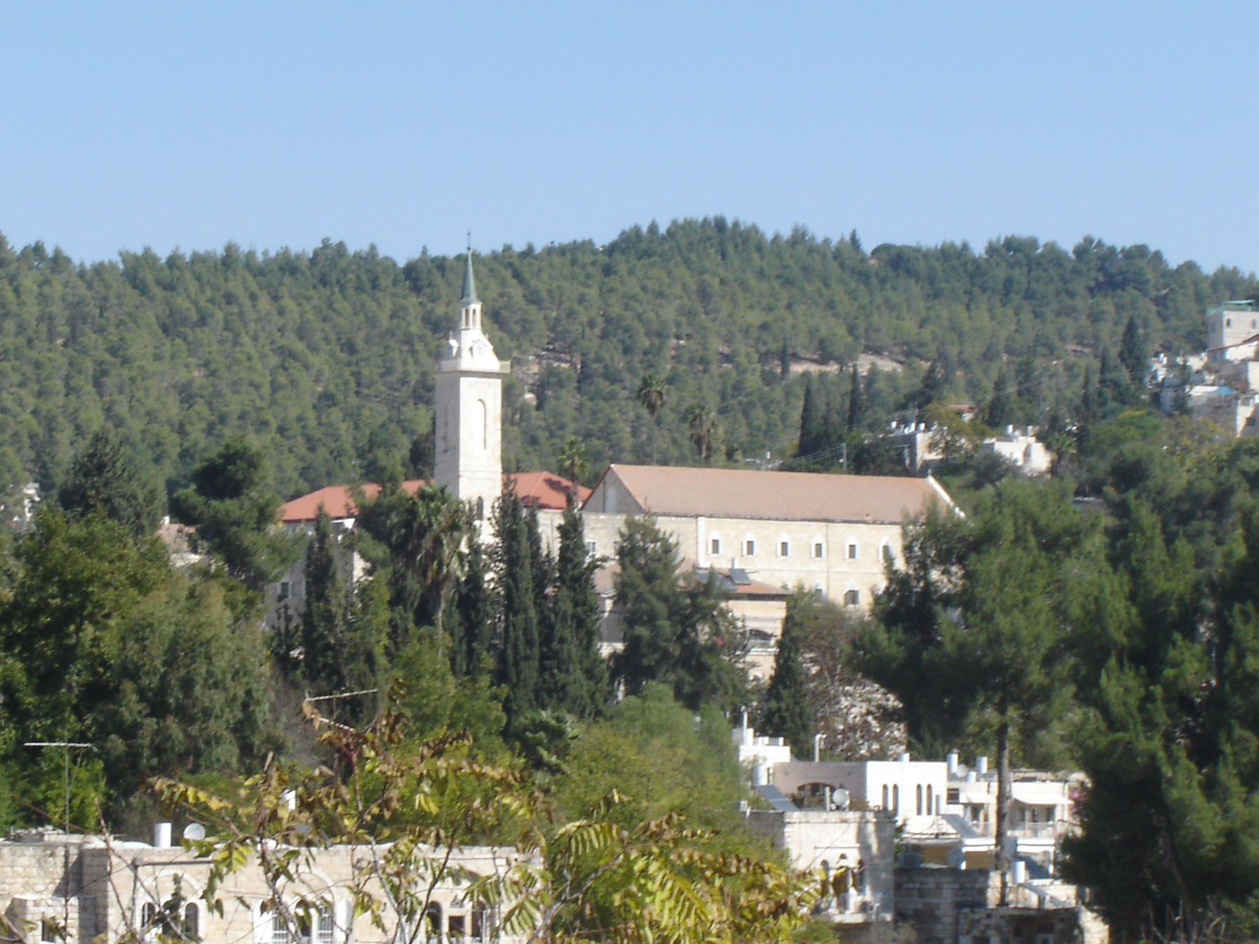 John the baptist Church in Ein Karem (view from Gorny Monastery) Jerusalem, Israel, 2006